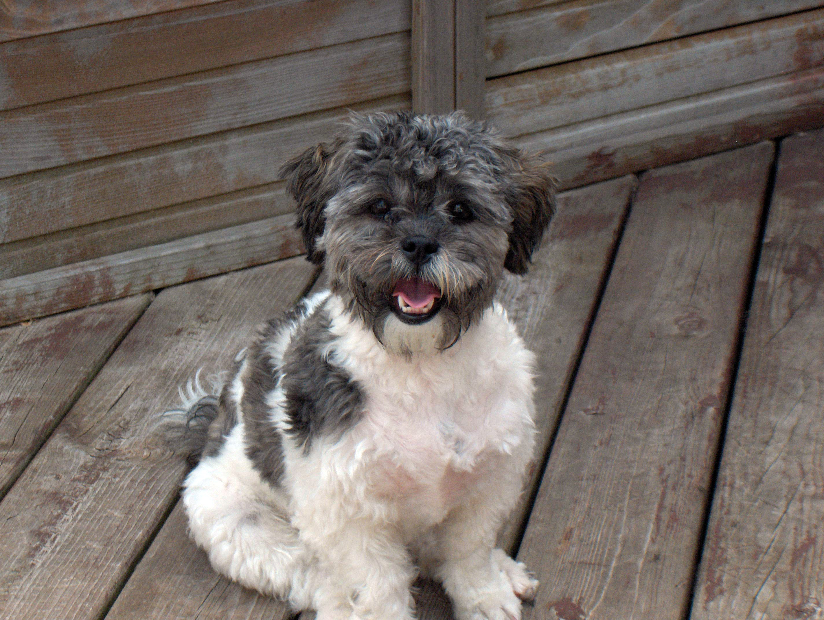 Picture of a ShihPoo named Barton Kennedy. Authored by Christopher Kennedy.